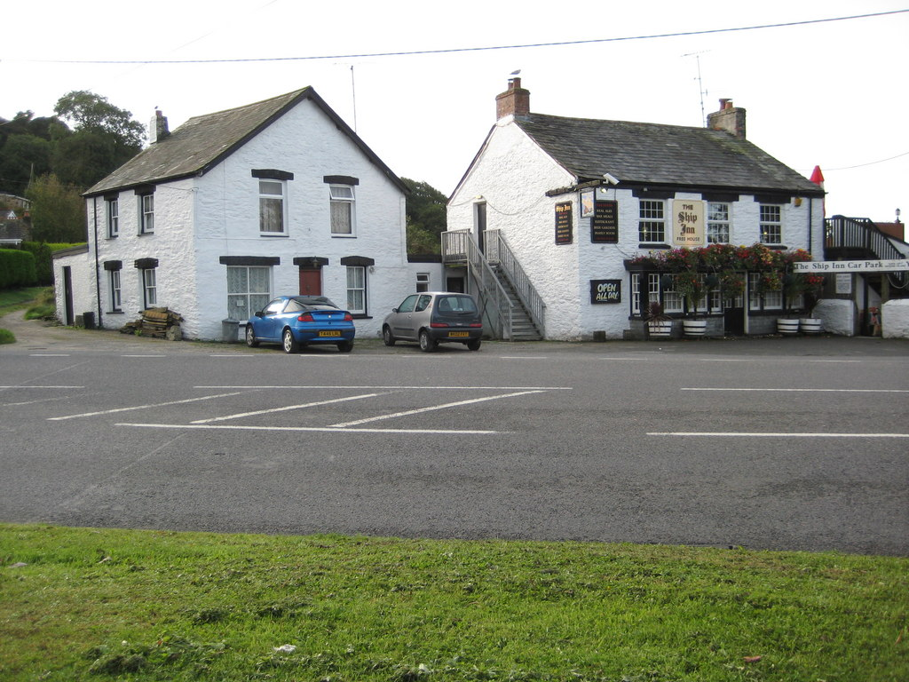 The Ship Inn in Polmear, near Fowey, Cornwall, UK. For more information, see the Wikipedia article Polmear, Cornwall.